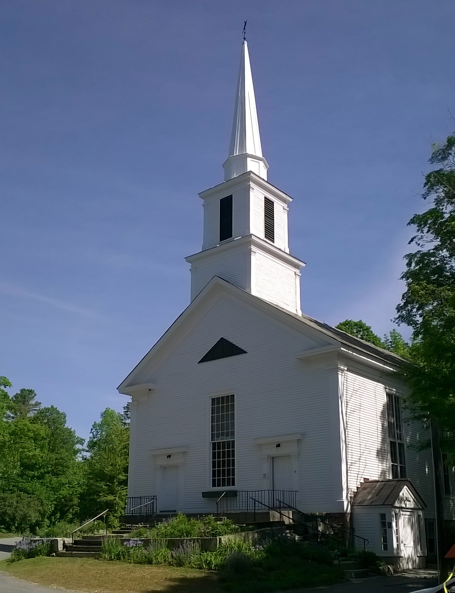 The Grafton "White Church" is a Congregational church located at 55 Main Street in Grafton, Vermont.